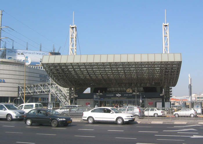 Shalom railway station, Tel Aviv